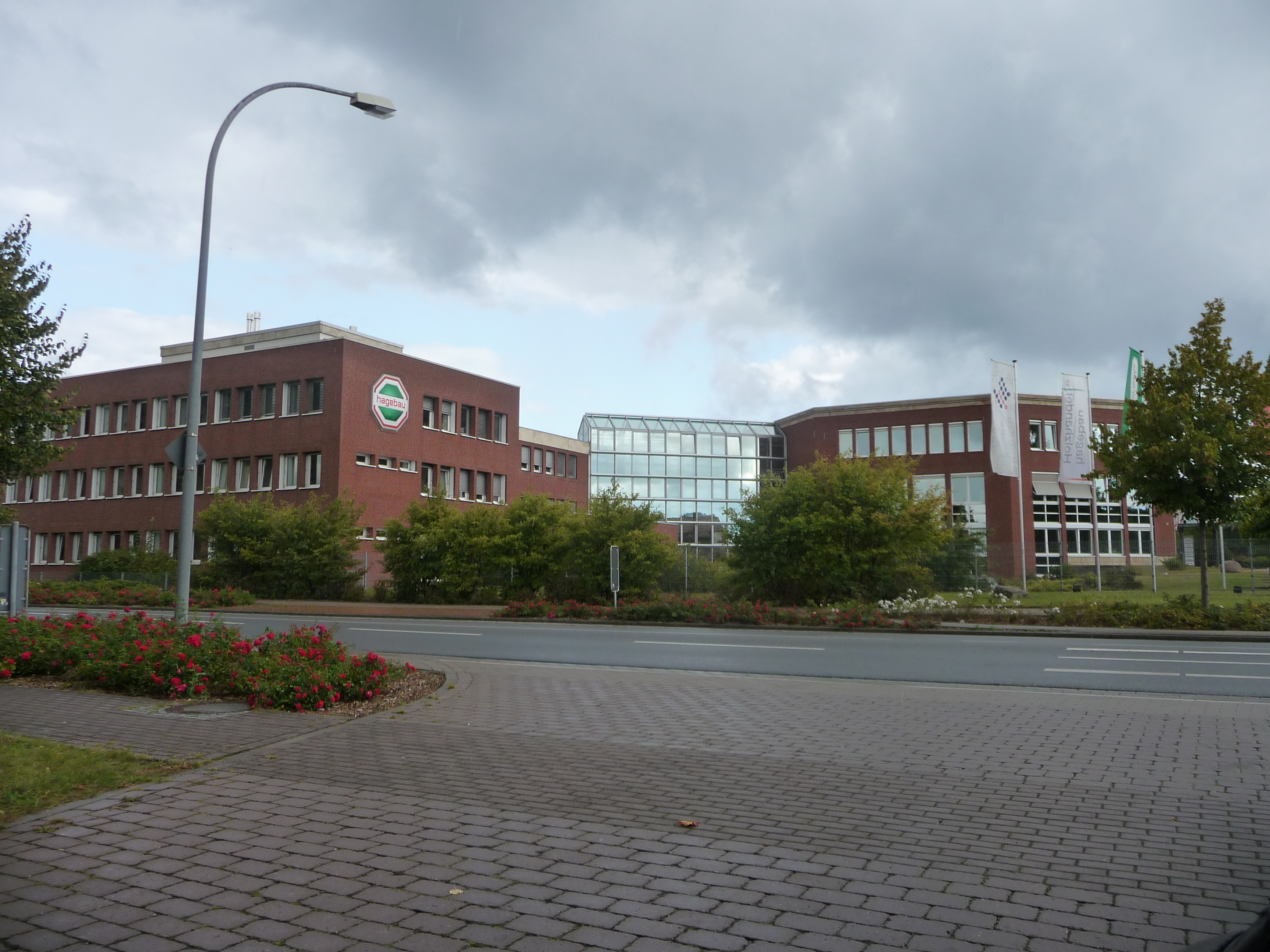 Hagebau headquarter in Soltau